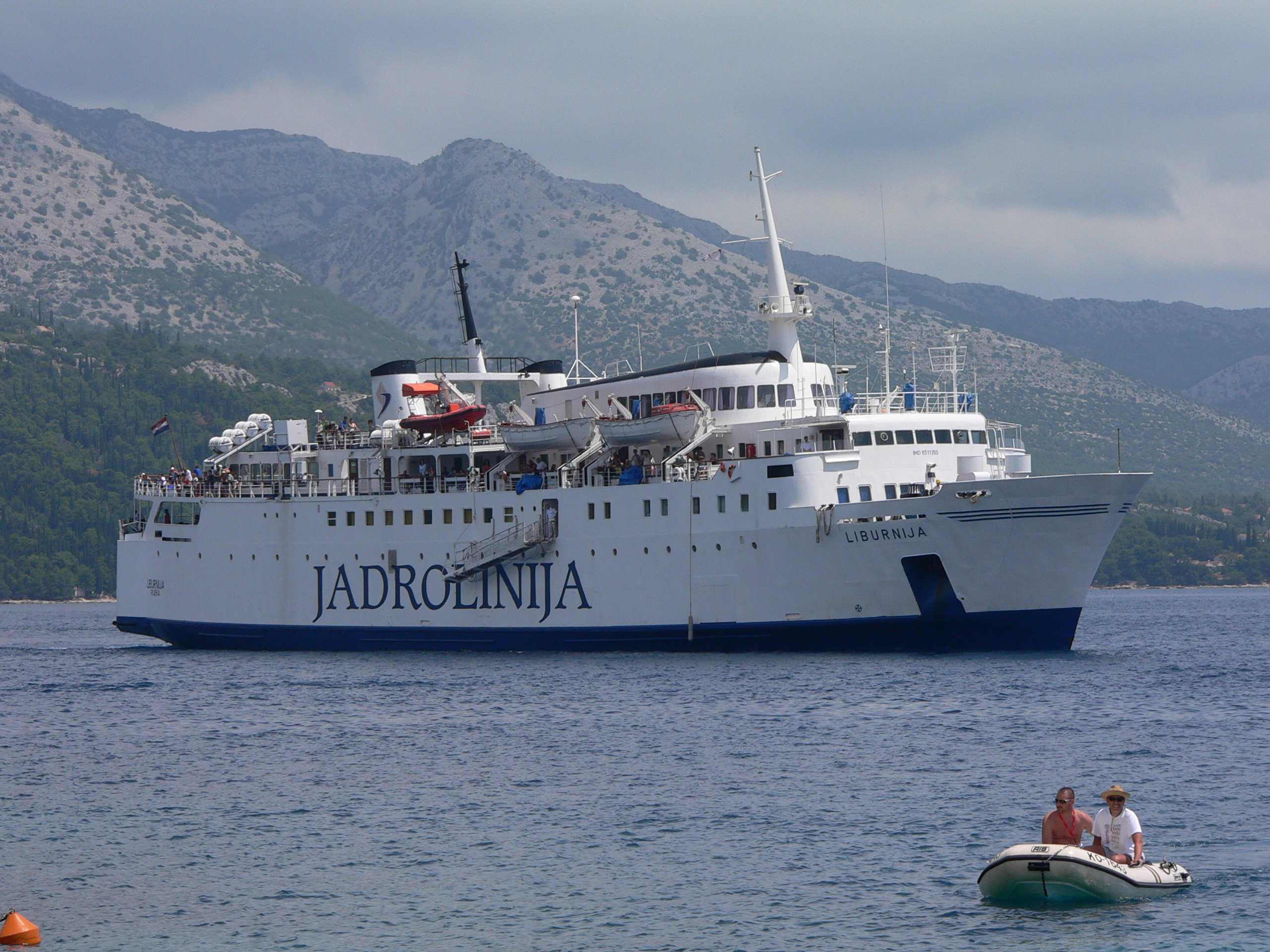 Jadrolinija ferry Liburnija approaching Korčula harbour IMO number: 6511350 Callsign: 9AEC